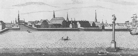 Engraving from 1750 showing the view of Christian IV's Brewhouse and Arsenal from Christianshavn with the entrance to the Tøjhus Harbour to the left. In the foreground to the right stands the sculpture of Leda and the swan mounted on a column